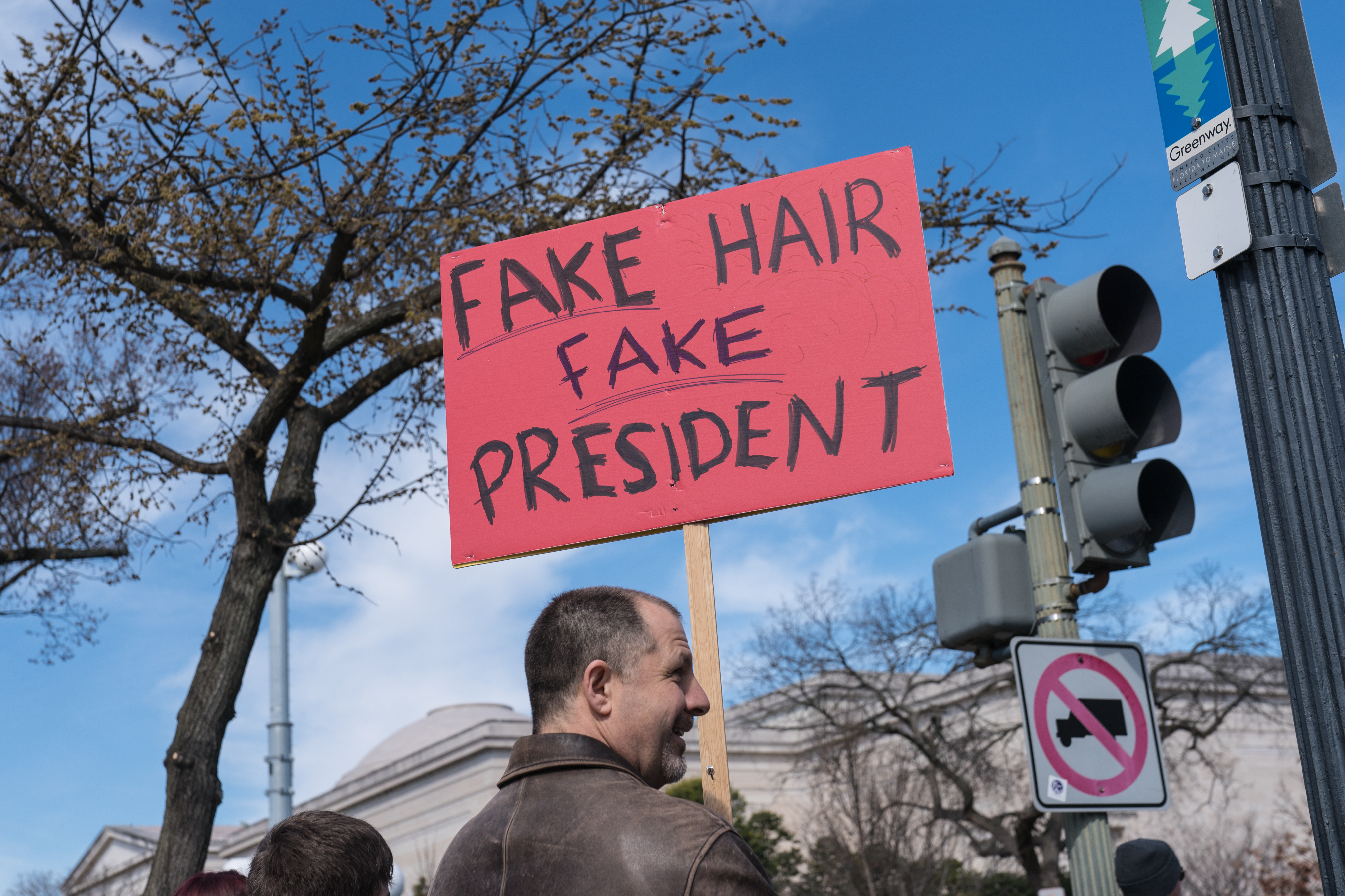 March for Our Lives on 24 March 2018 in Washington, D.C. : Fake Hair Fake President, March For Our Lives, Washington DC.jpg.